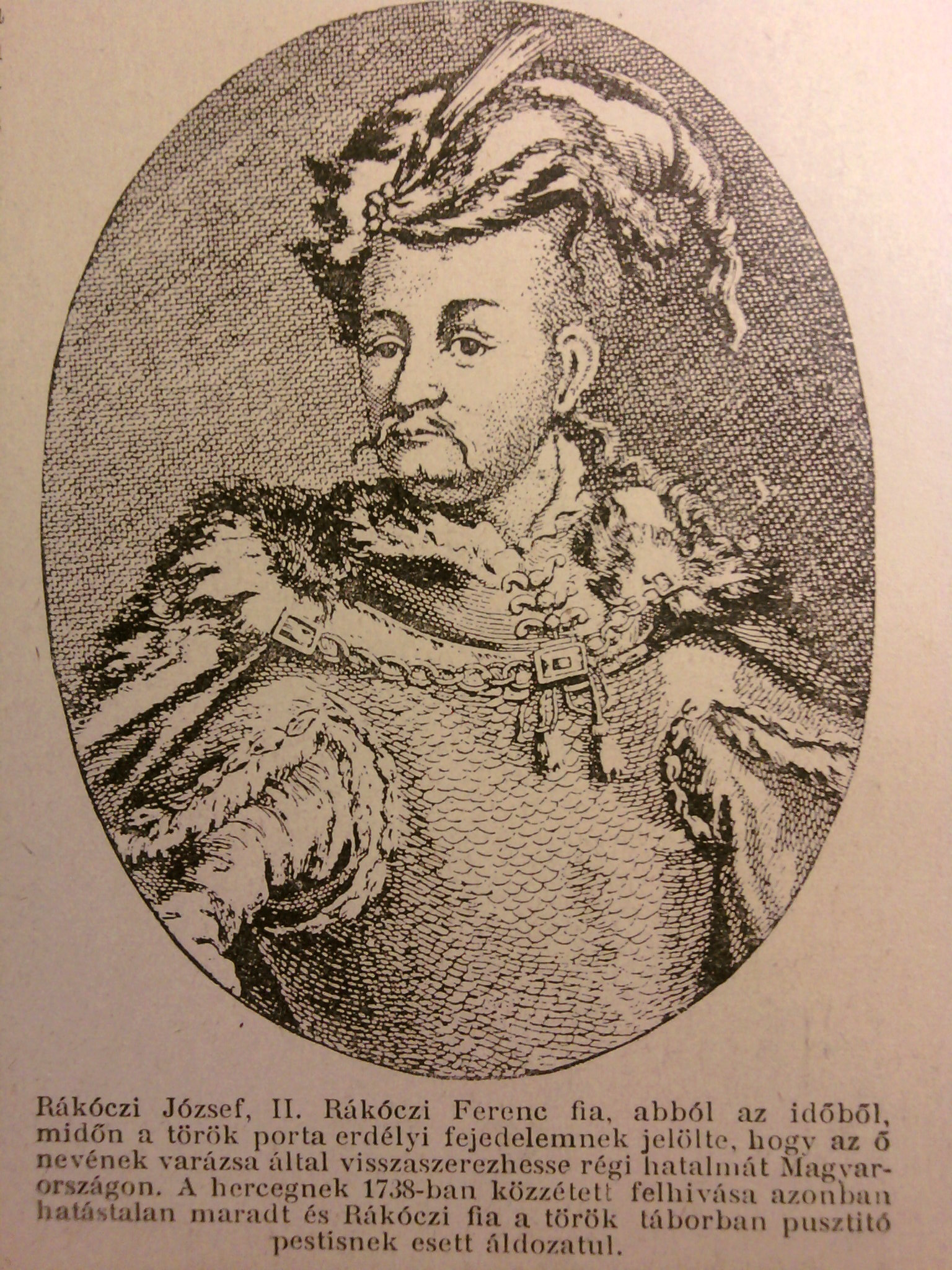 Rákóczi József, Francis II Rákóczi´s son